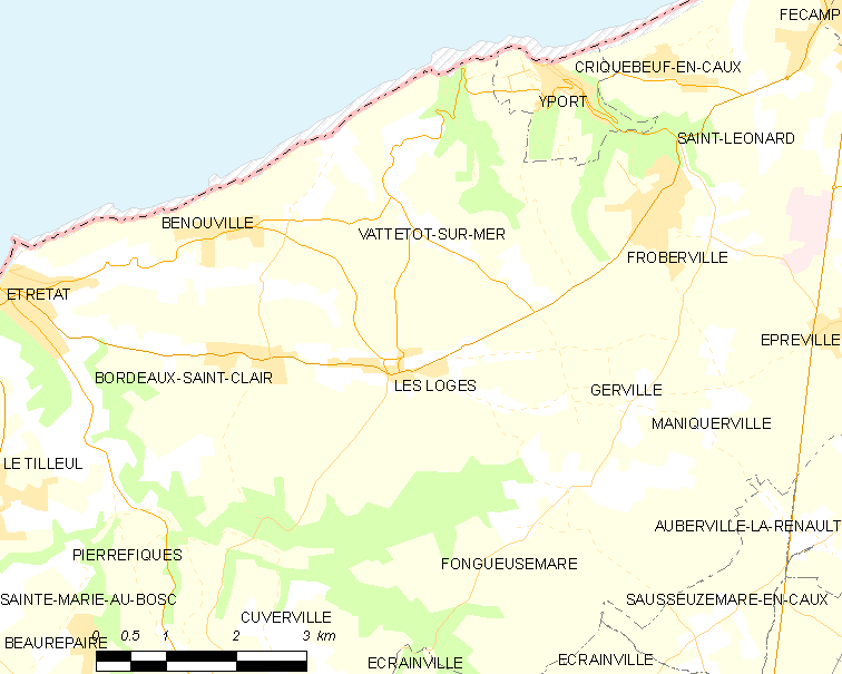 Map of French municipality Les Loges